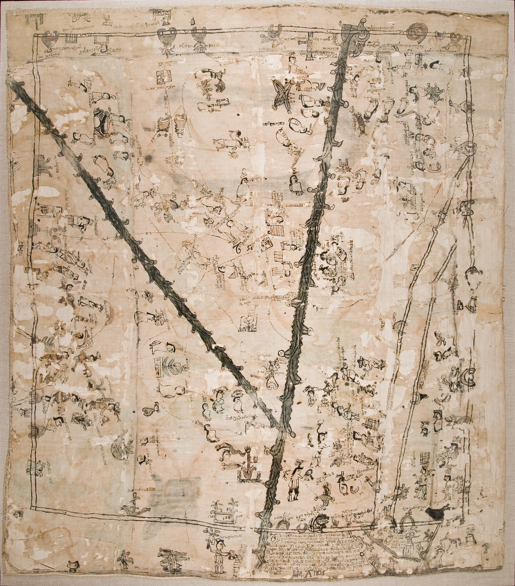 This indigenous pictographic document is a colonial-era map from the Mixtecan, Tlapaneca, and Nahua cultural area in the present-day state of Guerrero, Mexico. It refers, principally, to the settlement called Totomixtlahuacan and states that the document was written in 1584. It is an indigenous colonial map that makes abundant use of Mesoamerican pictorial conventions and includes many texts written in Nahuatl, the most widespread Mesoamerican language. The map describes a geographical area, framed by various identified towns and crossed by two rivers. Different individuals, probably noble landowners, are mentioned in various open spaces. The drawings of plants or animals are not decorative elements: their purpose is to describe the characteristics of the land or of agricultural parcels, or they are in themselves the glyphic names of people and places that also convey their names in Nahuatl. Crosses are used to denote churches. Place names, such as Santo Domingo, are in Spanish. The main text refers to the meeting of the tlahtoani, or lord of Xochitonalan, and various other lords in Totomixtlahuacan, to clarify ownership of the land in this locale. The map is from the collection of CONDUMEX, and was acquired by auction in San Francisco, California, in 1973. Codex; Indians of Mexico; Indigenous peoples; Mesoamerica; Nahuatl language